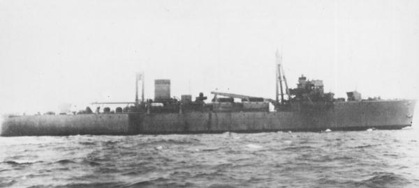 Japanese Oiler "Sunosaki" in trial run at Tokyo Bay.